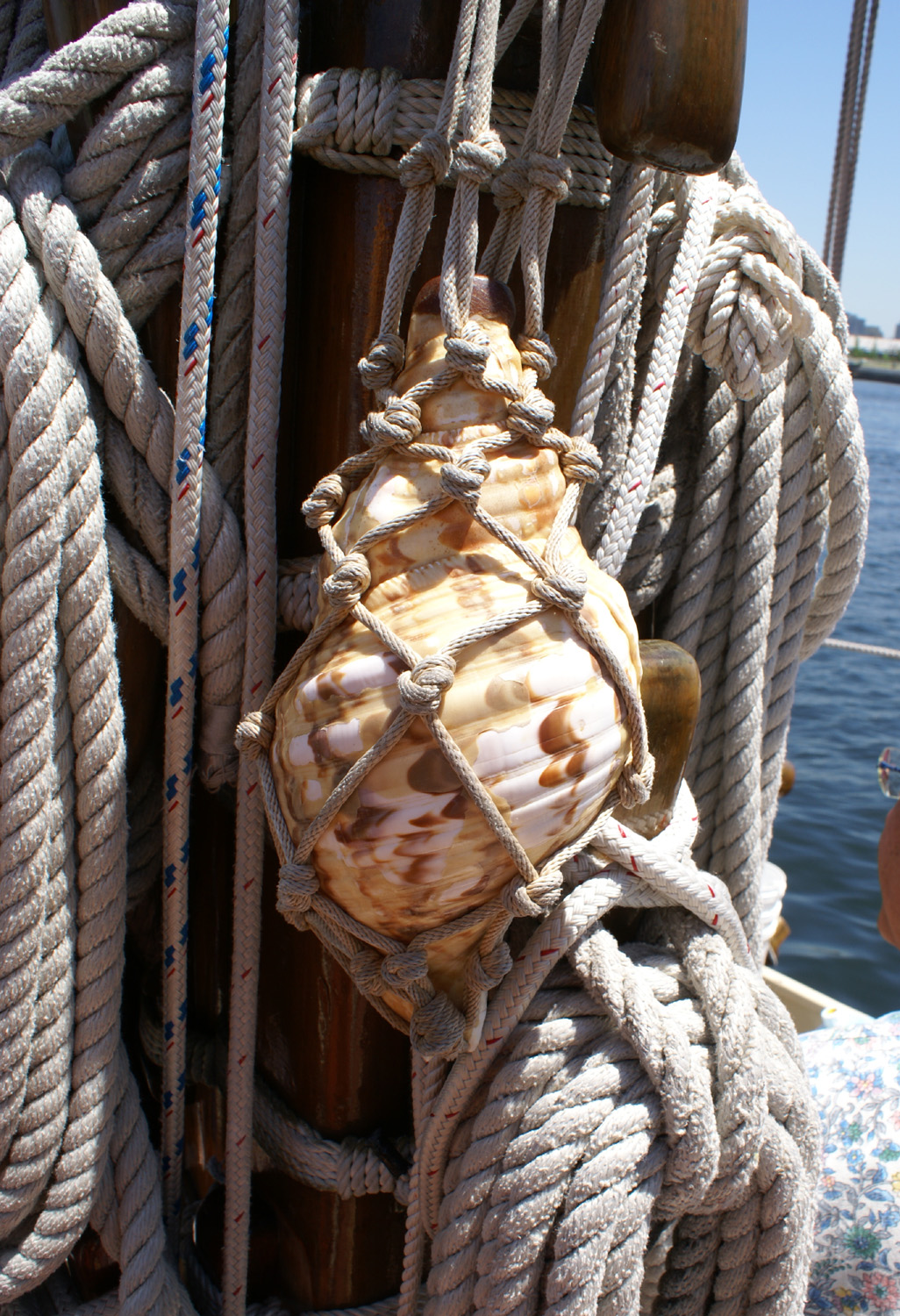 Hawaiian Pu(Conch Shell Trumpet) on Hokule'a